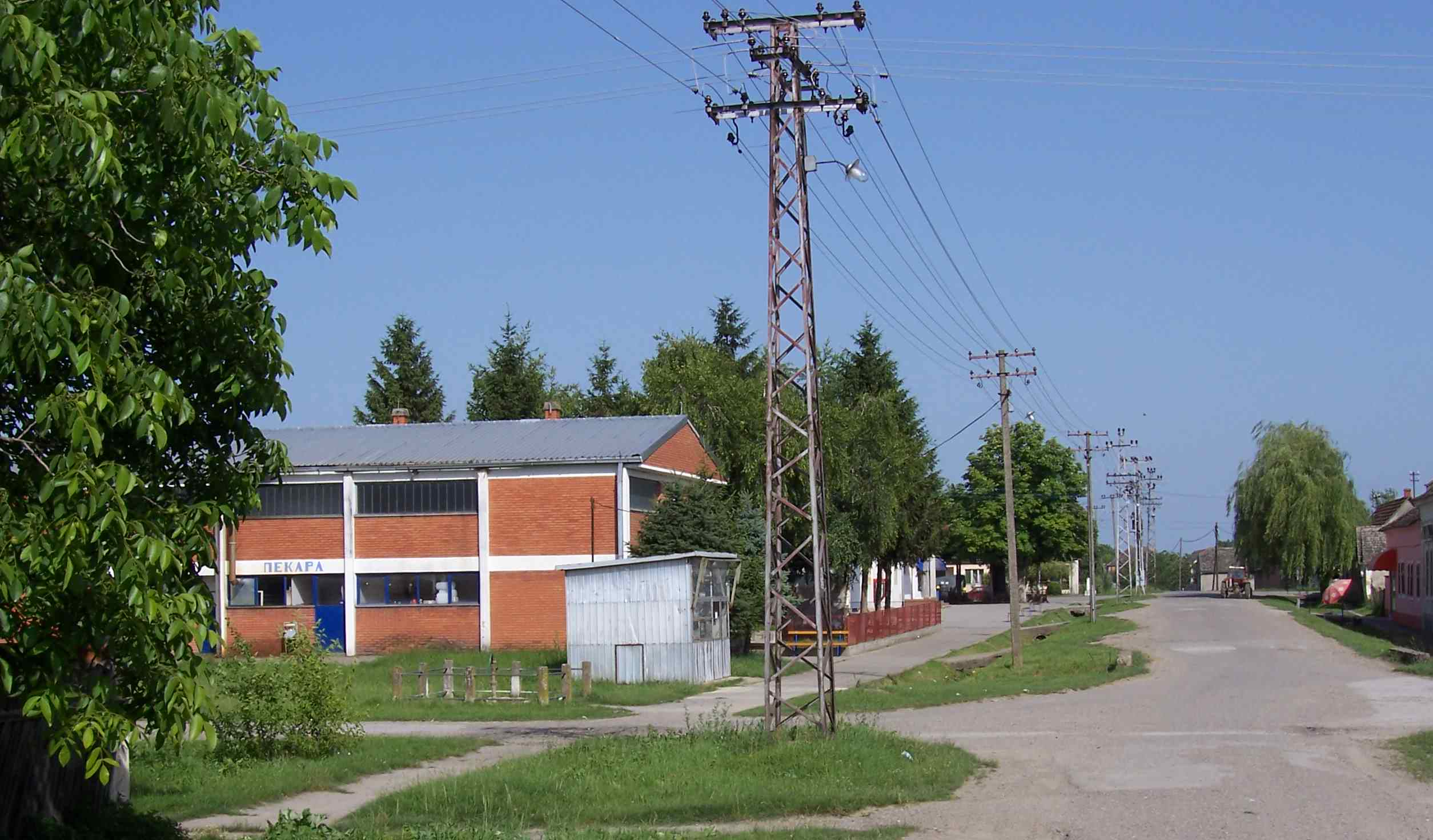 Ilinci (Илинци) in Serbia. Self made